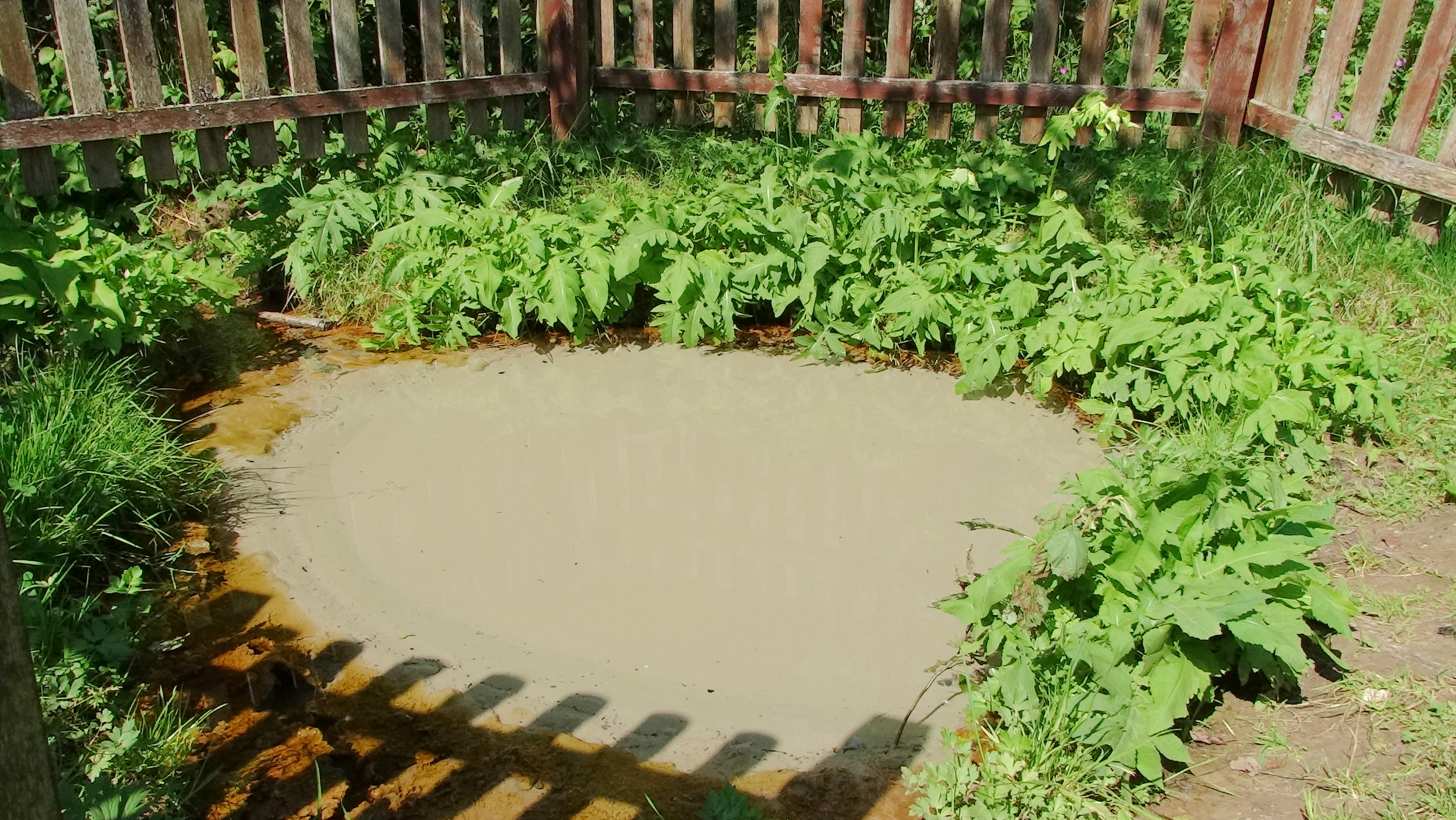 Žuvintė spring, Ukmergė District, Lithuania